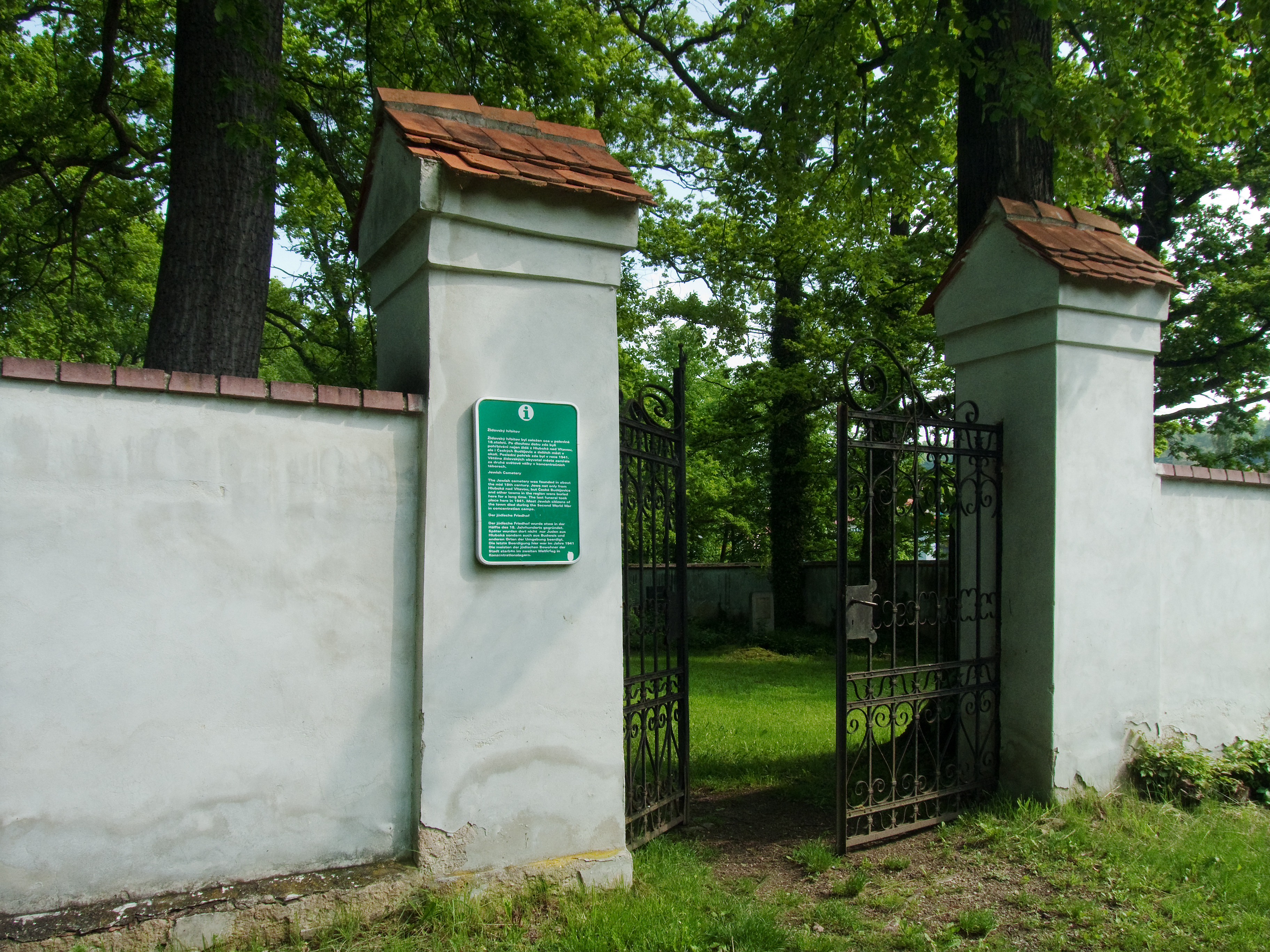 Gate of the Jewish cemetery in Hluboká nad Vltavou, Czech Republic